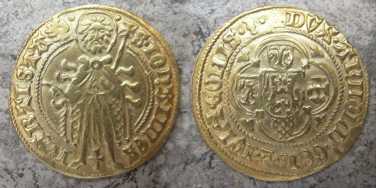 Duchy of Guelders, Golden Guilder of Arnold van Egmond (1423-1473), struck at Arnhem between 1425-1440.